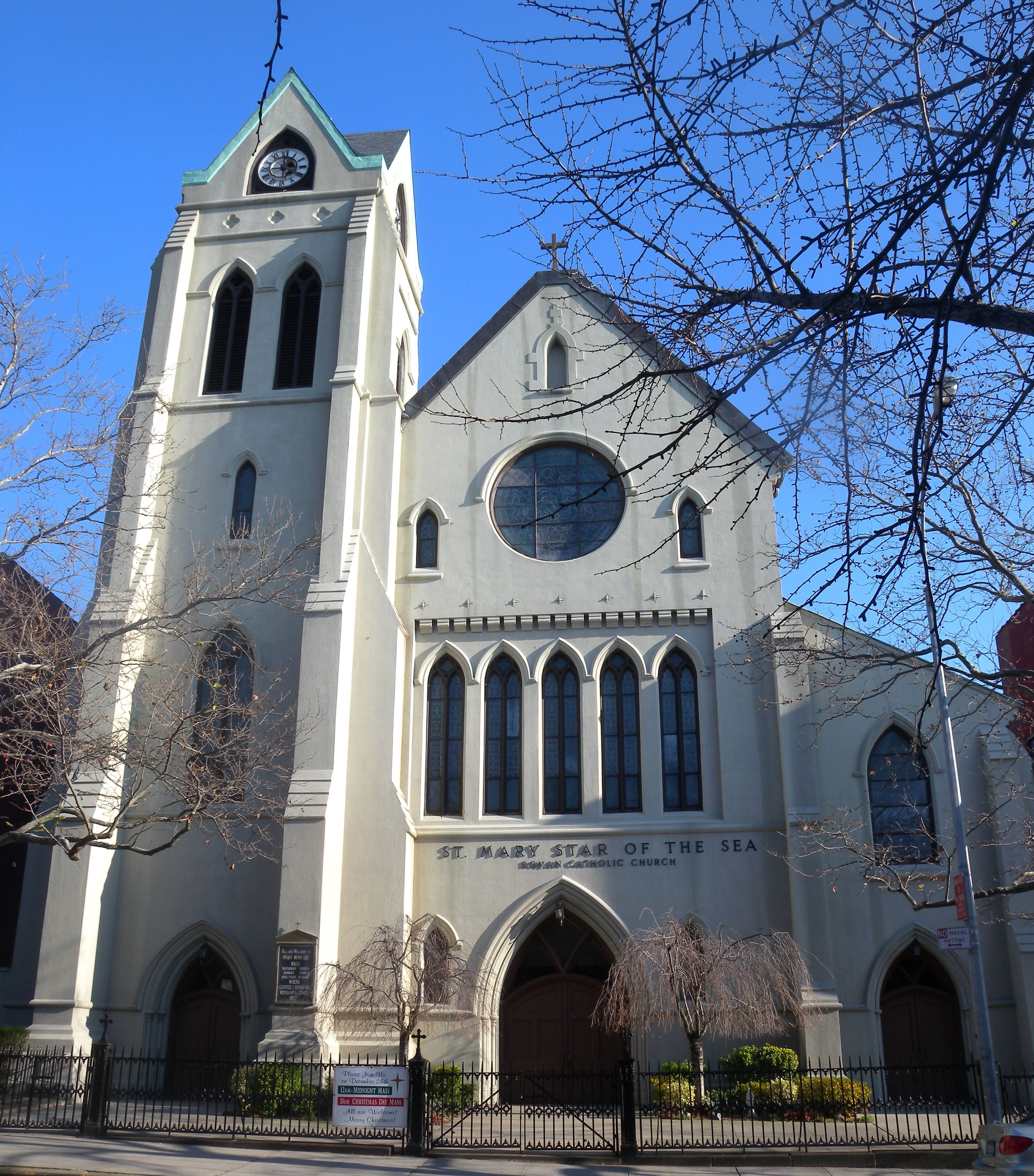 Looking east across Court Street at St Mary Star of the Sea Church on a sunny afternoon.